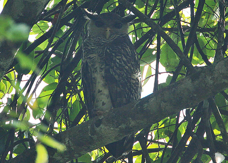 This huge & impressive owl is scarce throughout its range which makes the fact that I screwed -up taking this image all the more painful! This was our first day in Sri Lanka and we were on our way to our first accommodation when our guide presented us with this rare opportunity. Unfortunately we had the air-con in our vehicle turned up full with the result that as soon as I stepped out of the vehicle into the hot humid forest air my lens/camera fogged-up. Sadly we didn't have sufficient time (or a hair-dryer!) to de-mist the glass and so the images taken were very poor, hazy and under-exposed requiring considerable work in Photoshop to rescue them. So remember, if travelling in hot humid conditions don't switch on the aircon!!! Image taken near Sinharaja Rain Forest Reserve, Sri Lanka.